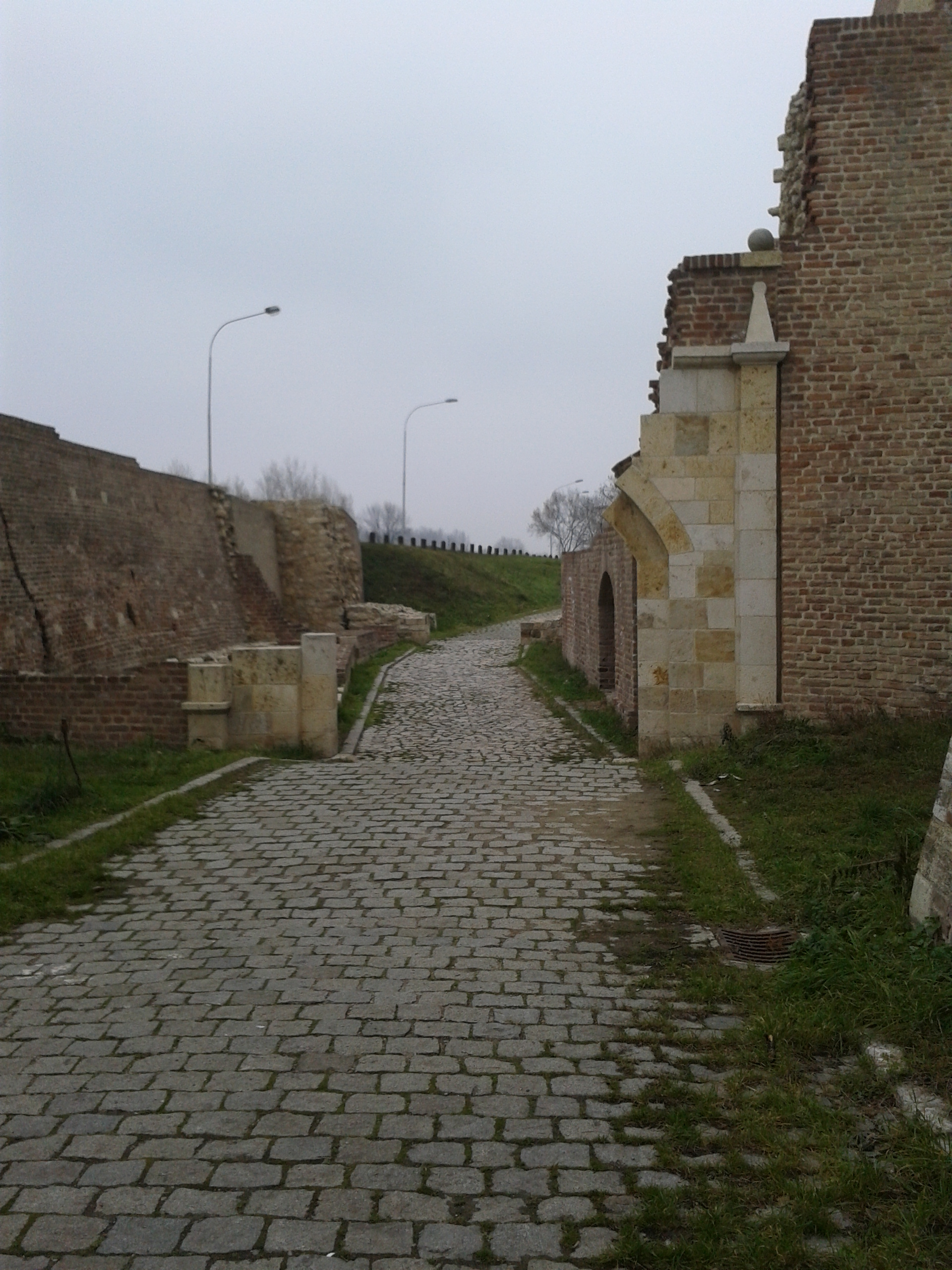 Reconstructed remains of Inner Sava Gate of Belgrade Fortress.